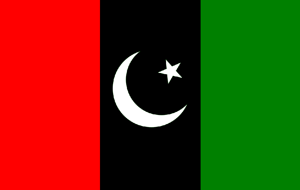 Flag of Pakistan People's Party